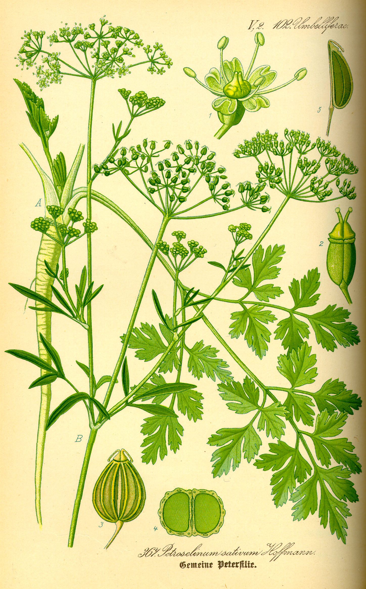 Name Petroselinum crispum Family Apiaceae